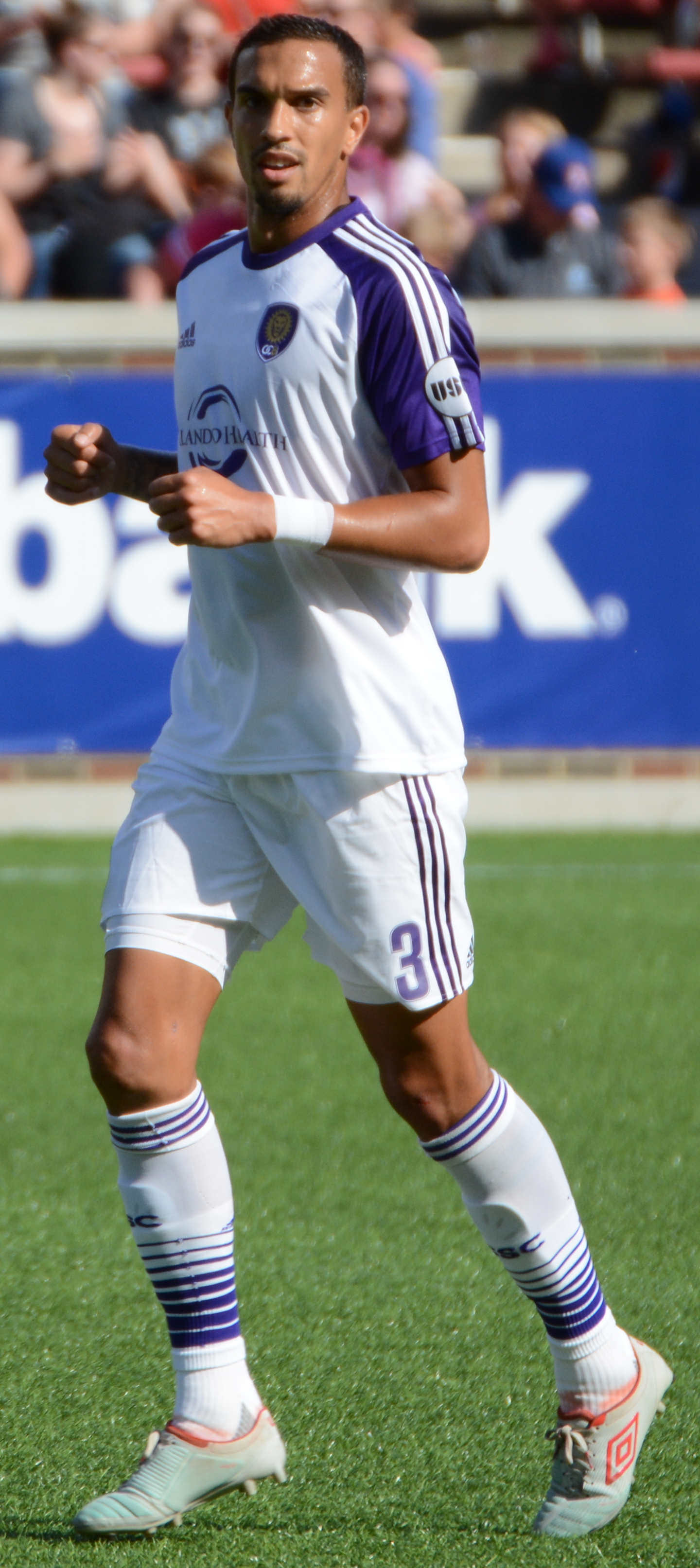 Seb Hines Taken during a match between FC Cincinnati and Orlando City B at Nippert Stadium in Cincinnati, USA on May 13, 2017.